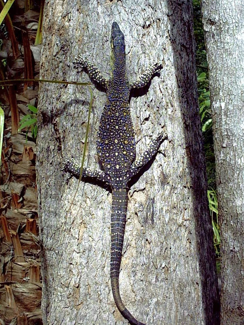 Beschreibung: Varanus varius on a tree trunk, in Byfield National Park, Queensland. Fotograf: ZayZayEM first upload in en wikipedia on 02:32, 31 Oct 2004 Lizenz: Dual-licence